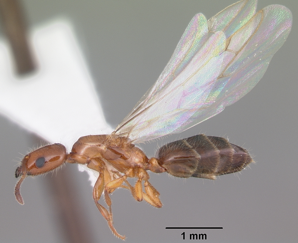 Profile view of ant Myrmelachista ramulorum specimen casent0104125.